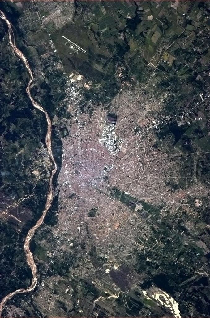 "Santa Cruz de la Sierra, a major business hub in Bolivia, home to about 2 million of us." Caption by astronaut Chris Hadfield aboard the International Space Station.